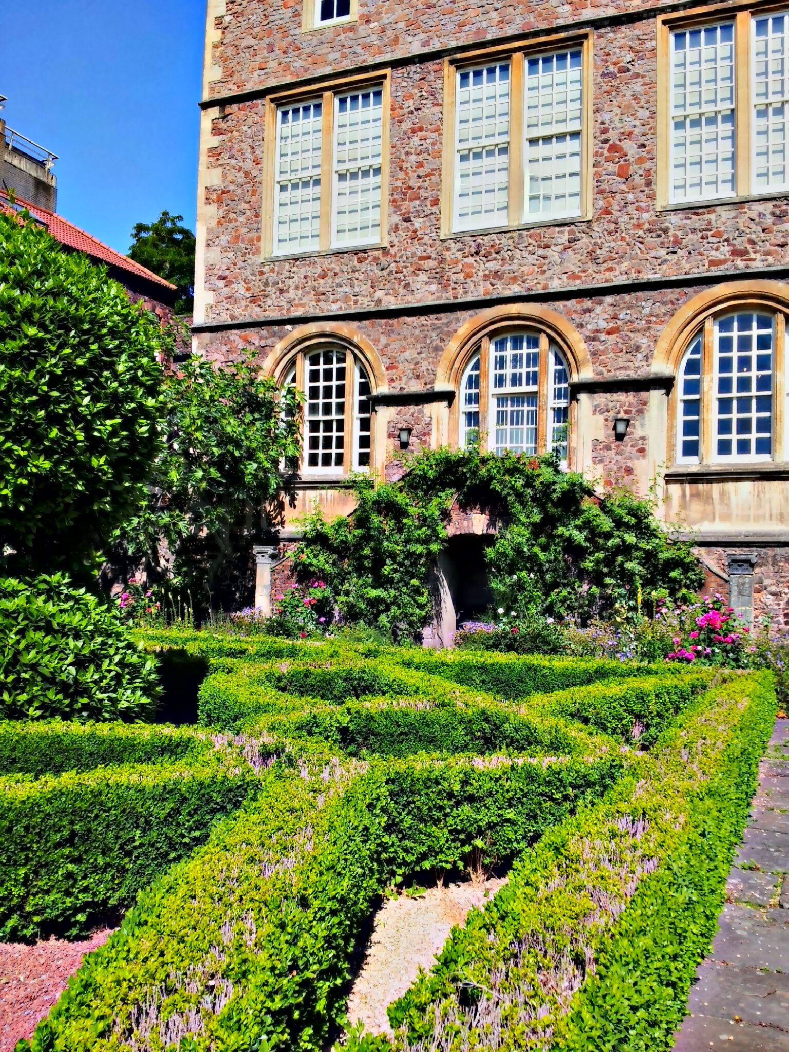 Tudro and Georgian furniture at the Red Lodge Museum in Bristol